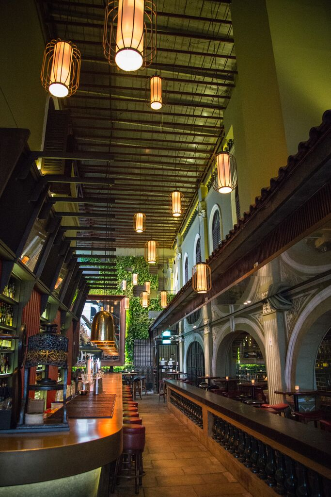 Alley Bar